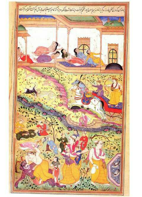 Adi parwa episode from Birla Razmnama.